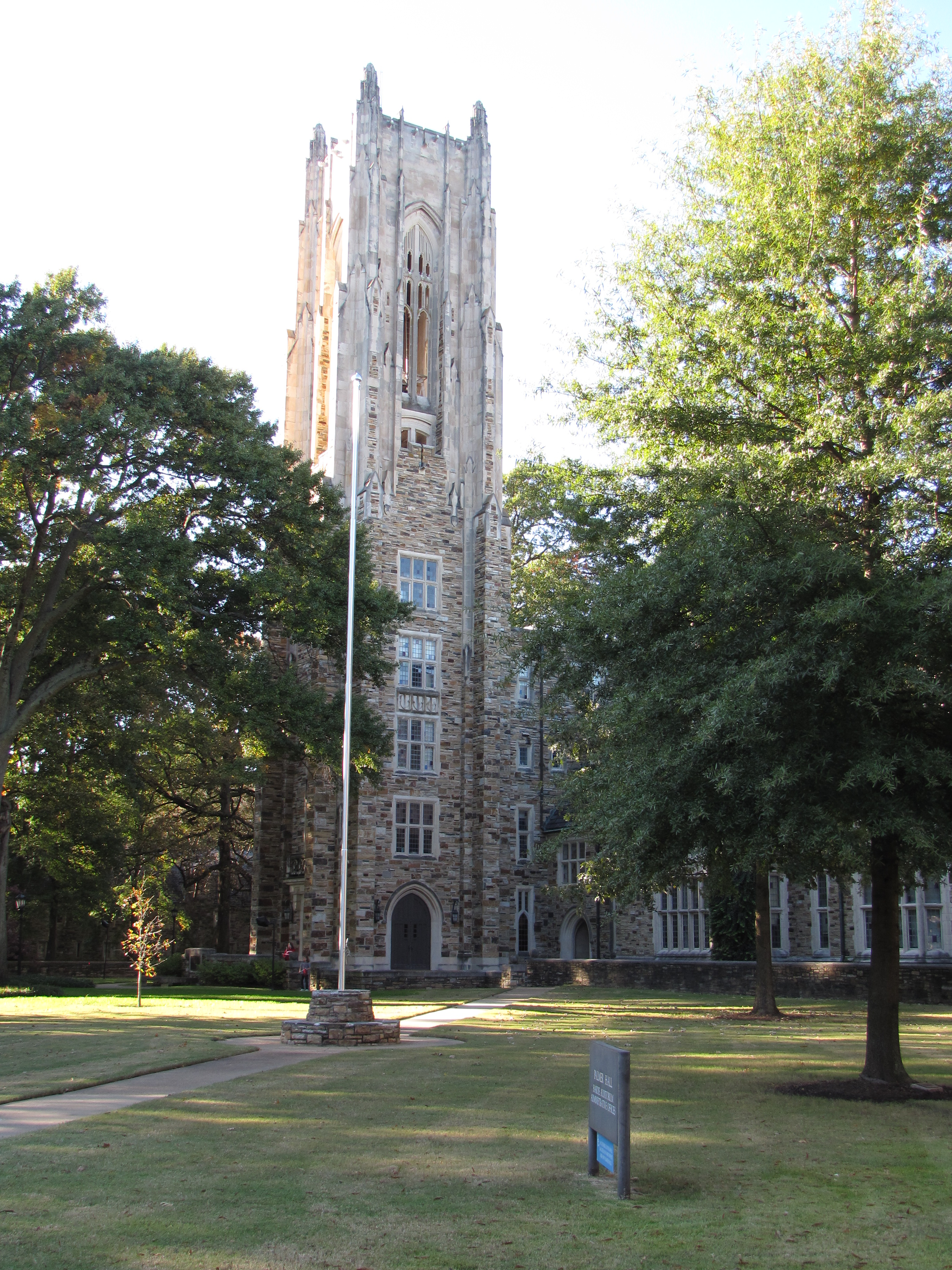 Halliburton Tower, on the campus of Rhodes College (Memphis, Tennessee, USA), viewed from the east-southeast.